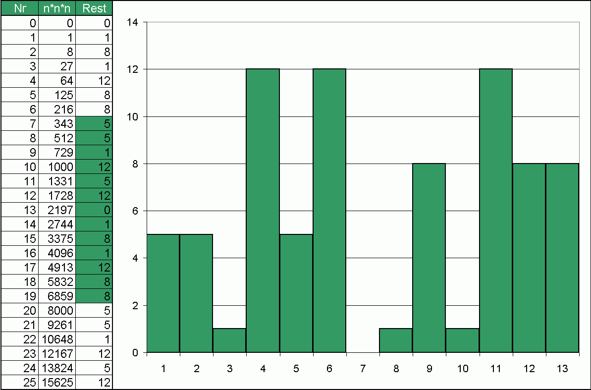 cubic residual diffusor - example with 13 wells